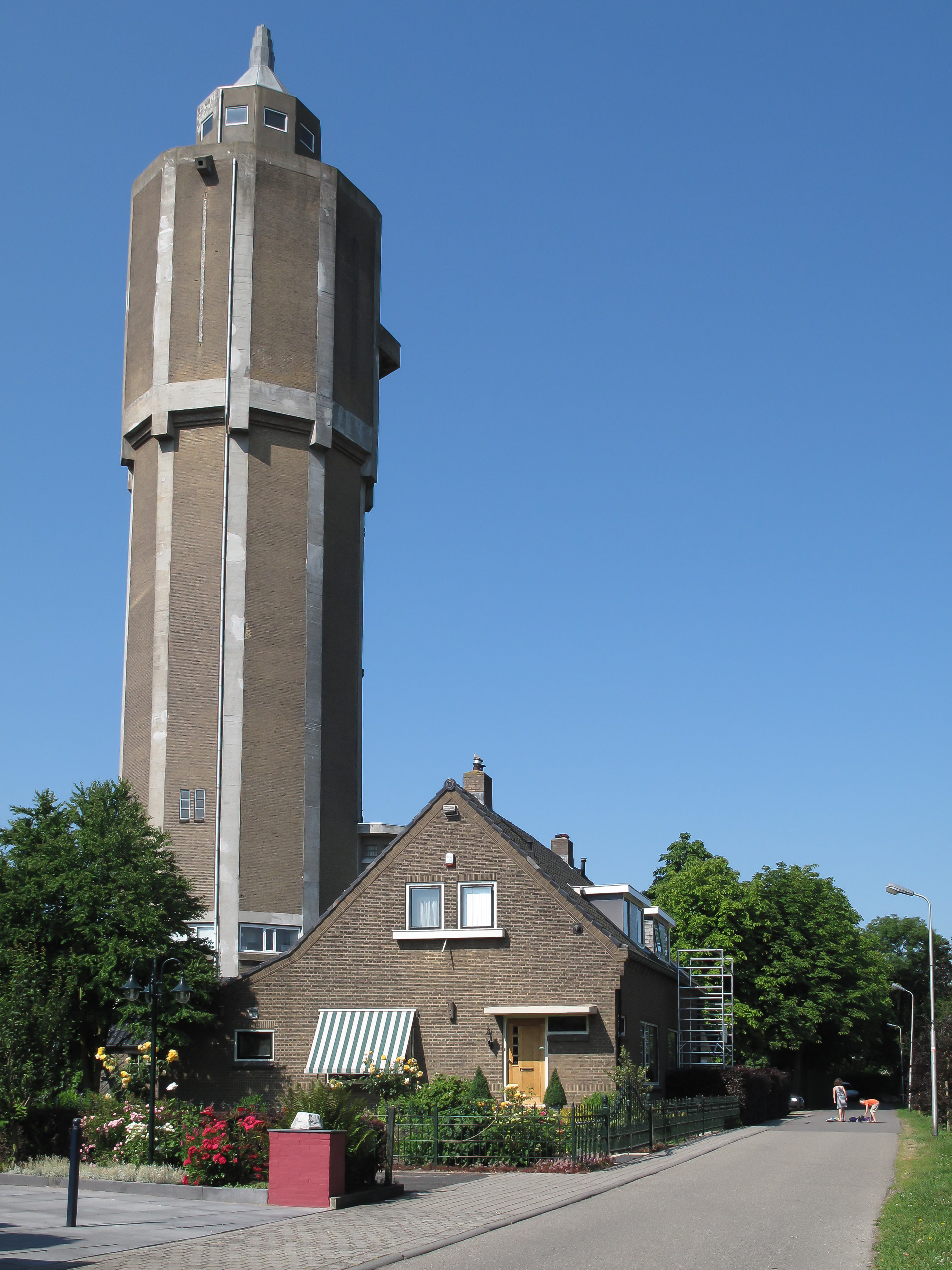 Leerdam, watertower